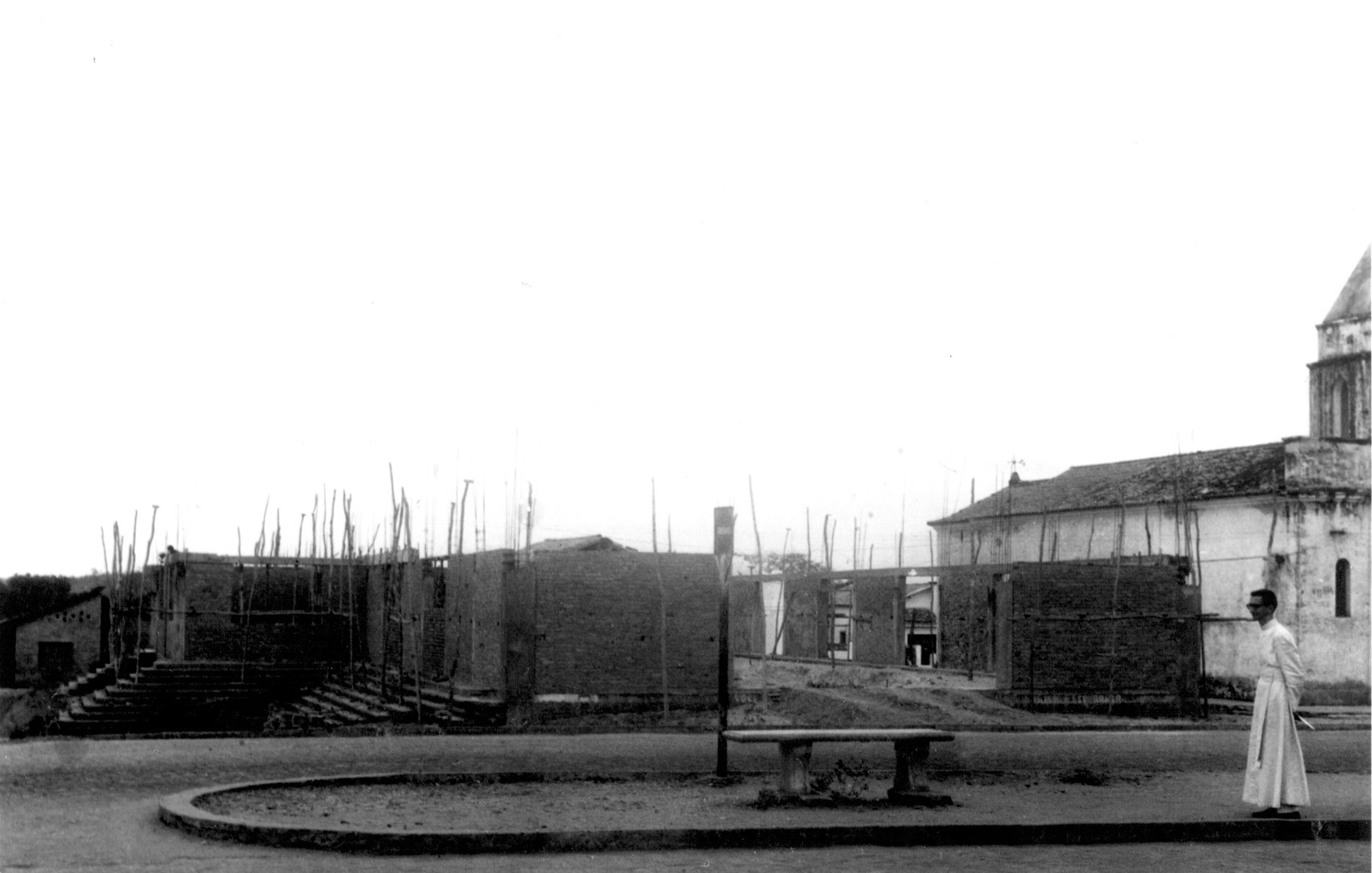 Igreja Nossa senhora de Lourdes